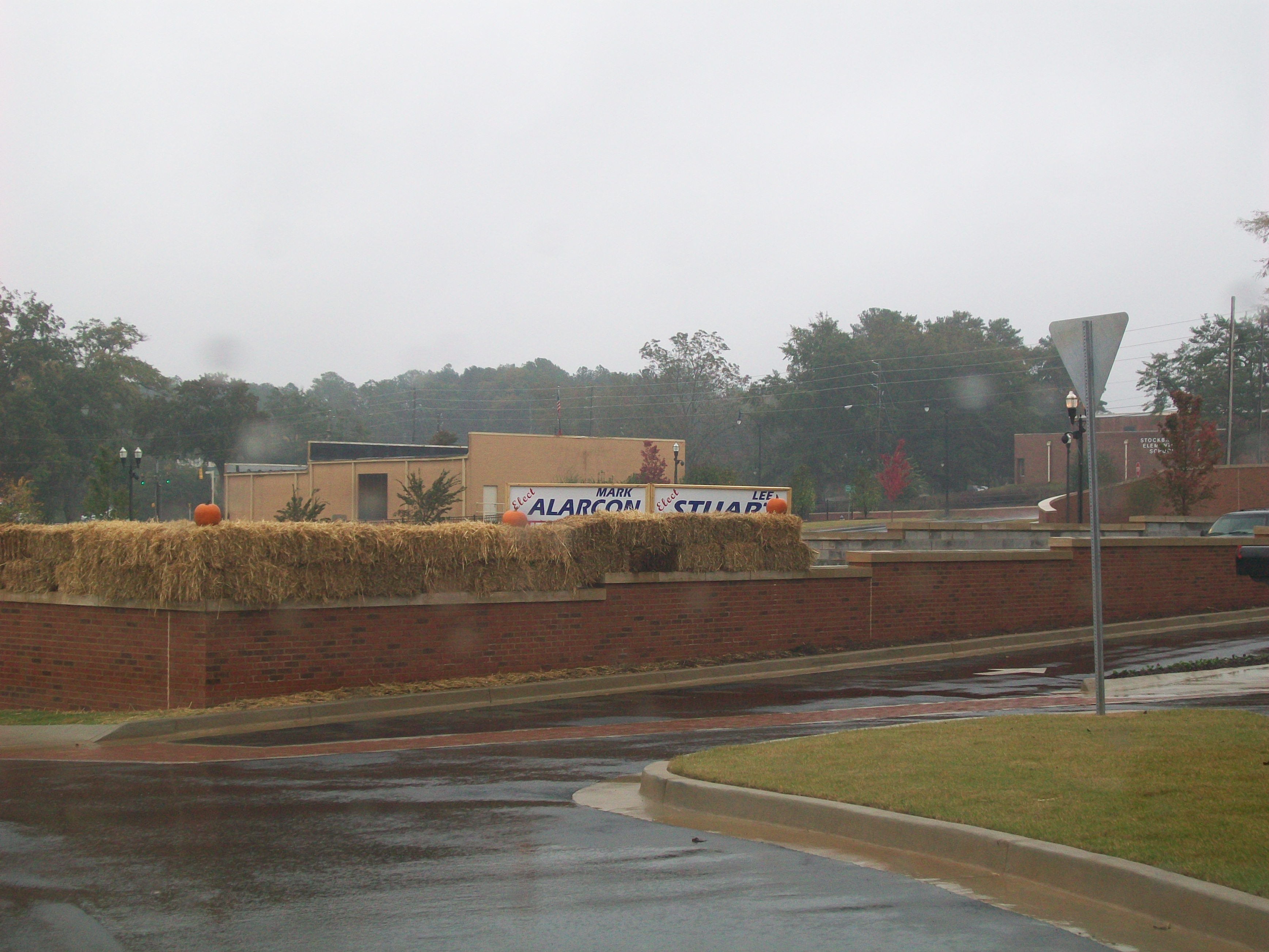 Image taken of the Stockbridge, GA, City Hall putting up bales of hay to block views of signs of opposing candidates. Note the display is only where there are opposing political signs.